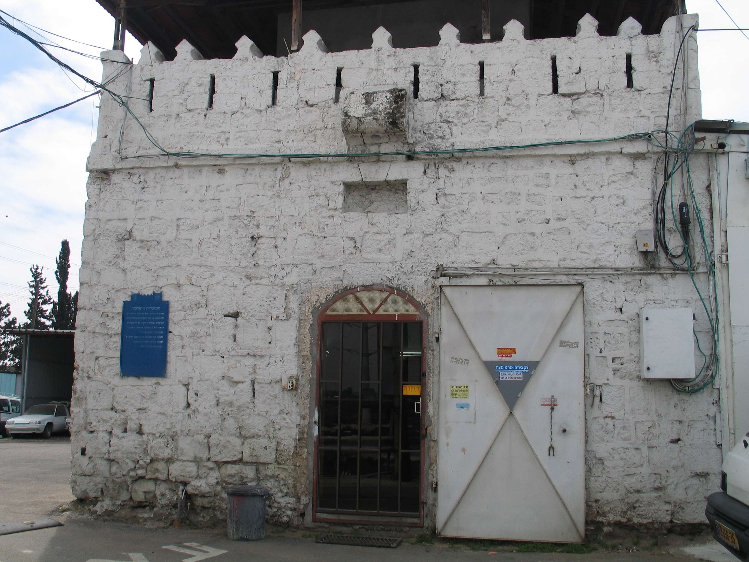 Ottoman fort, Holon, Israel.